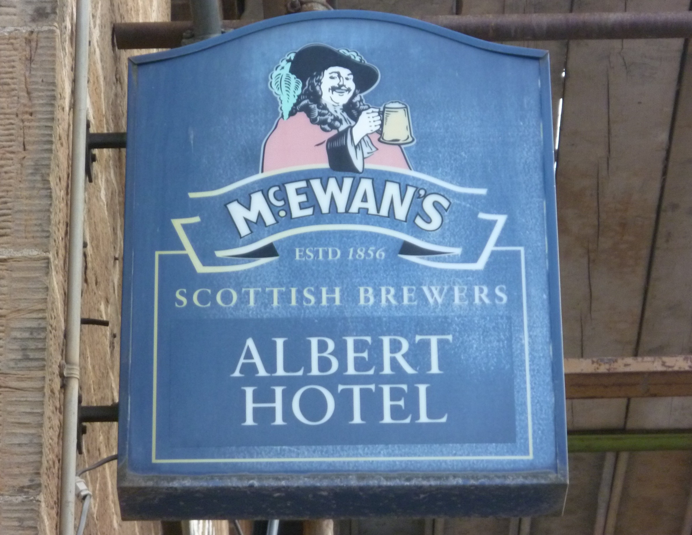 Albert Hotel pub sign, North Queensferry